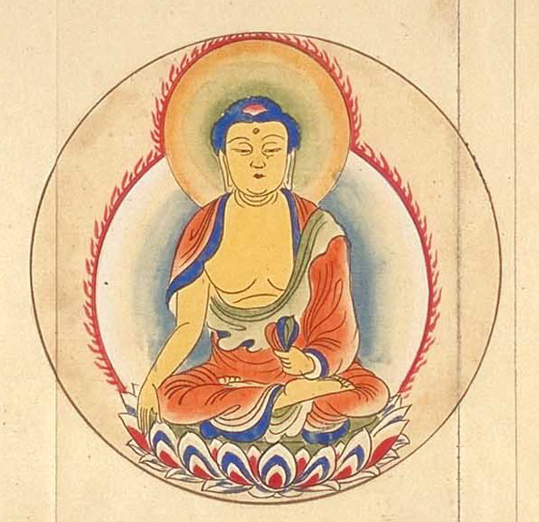 Ashuku Nyorai